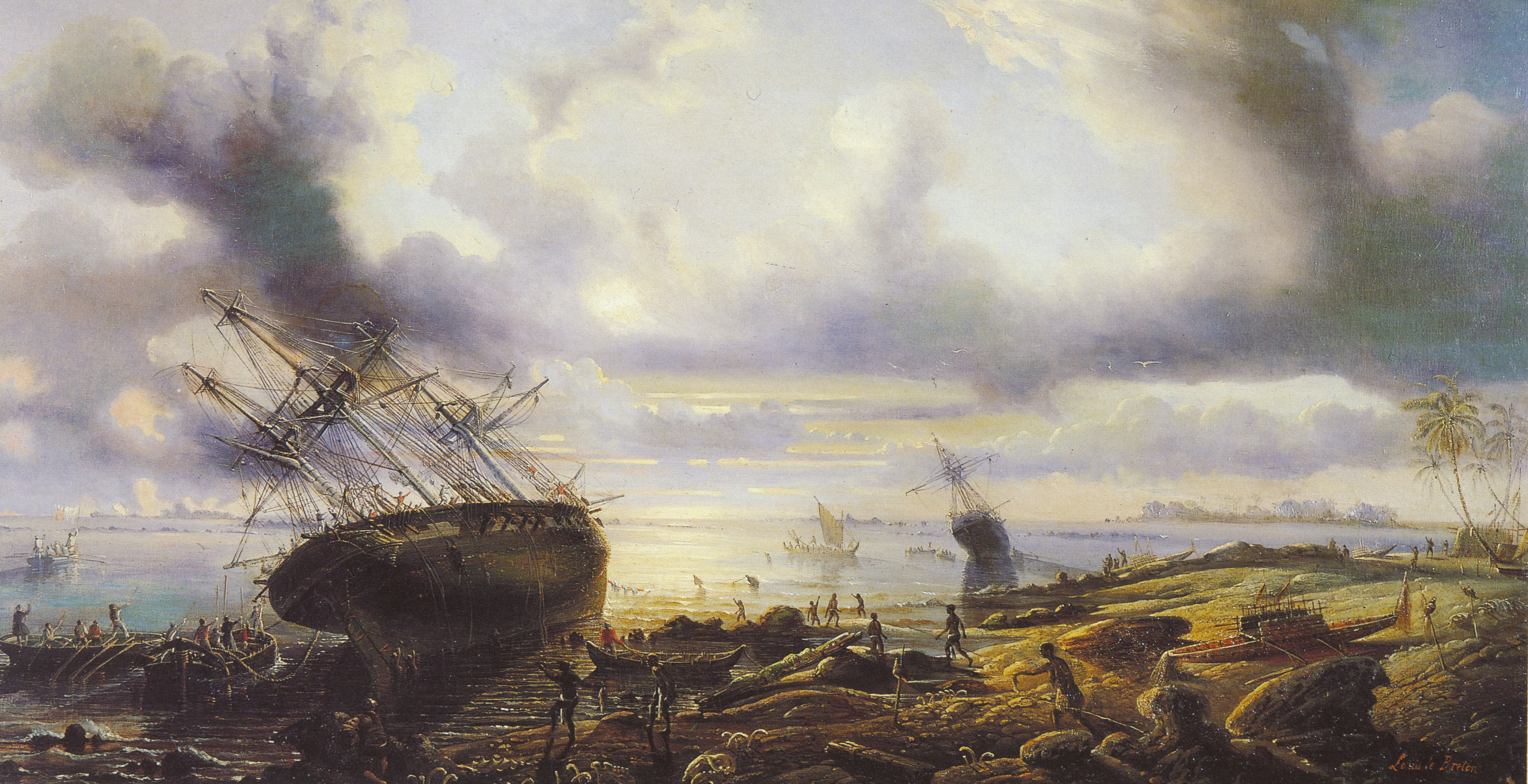 The Astrolabe and Zélée aground in the Torres Strait